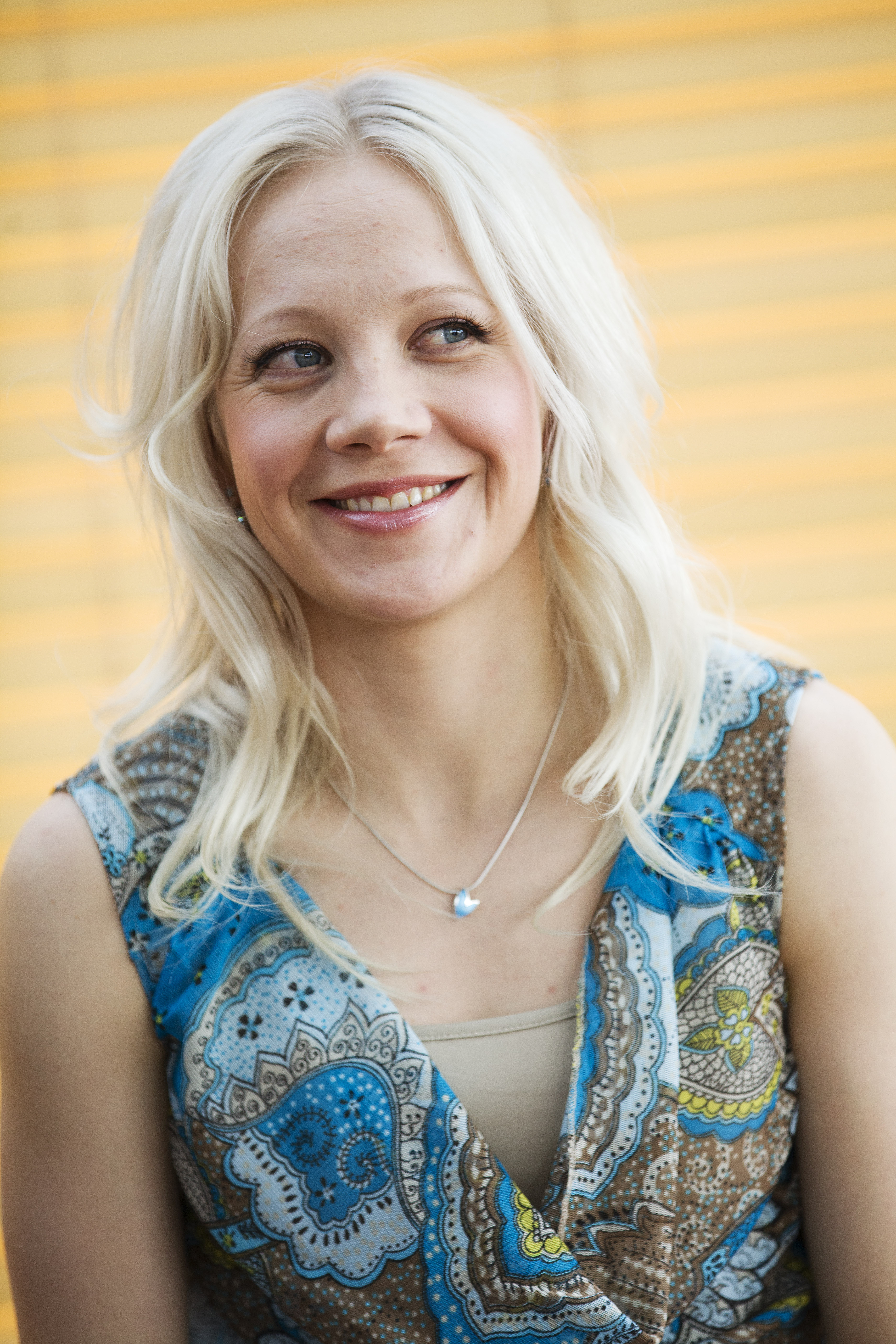 Finnish biathlete Kaisa Mäkäräinen.